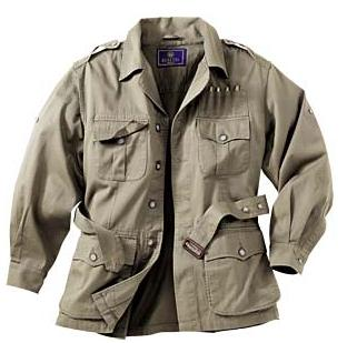 Photo of a grey safari jacket jacket